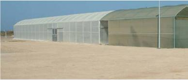 The Seawater Greenhouse is placed on sandy coast in Tenerife